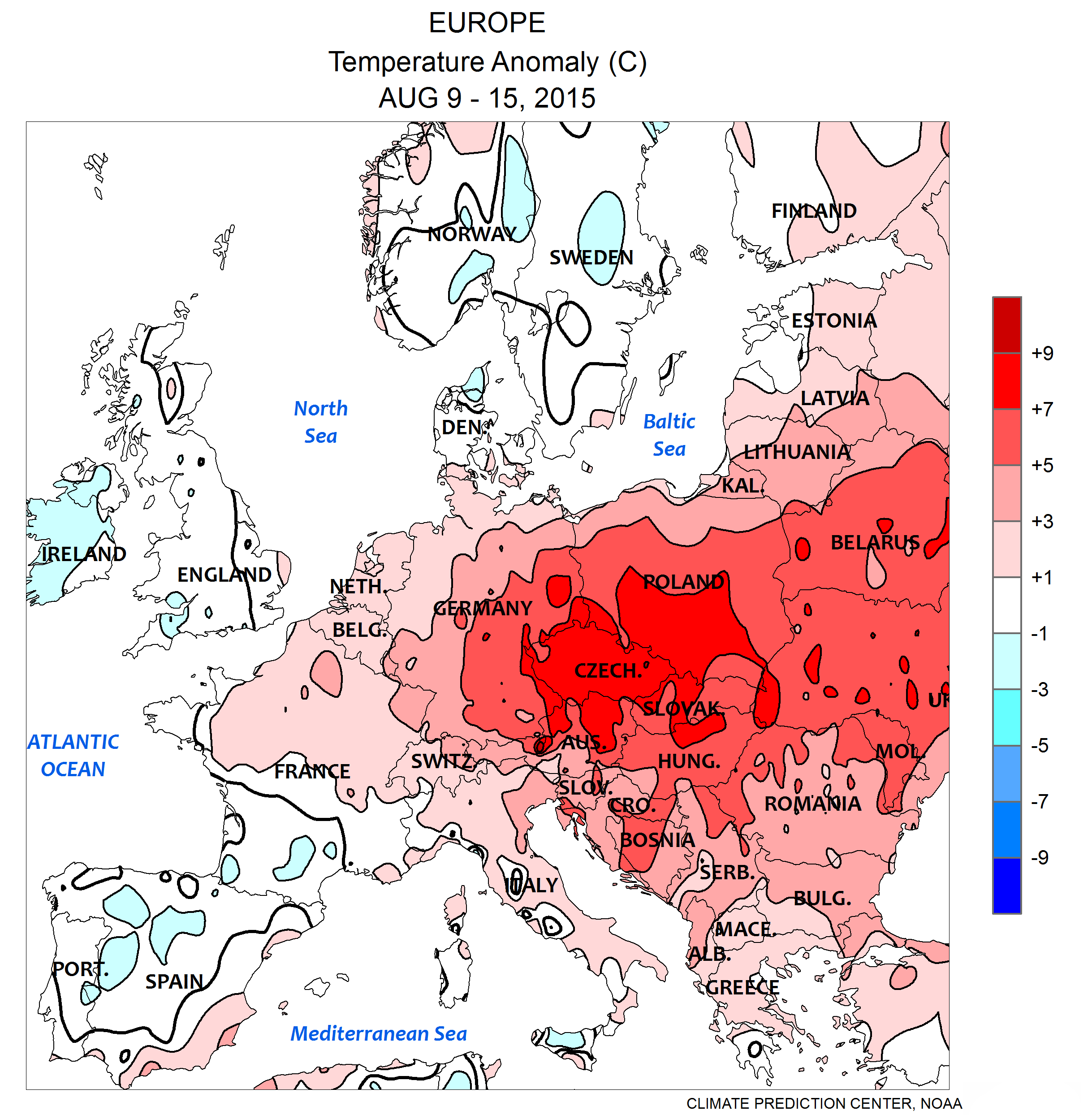 Europe: Temperature anomaly August 9 - 15, 2015, computer generated contours, based on preliminary data